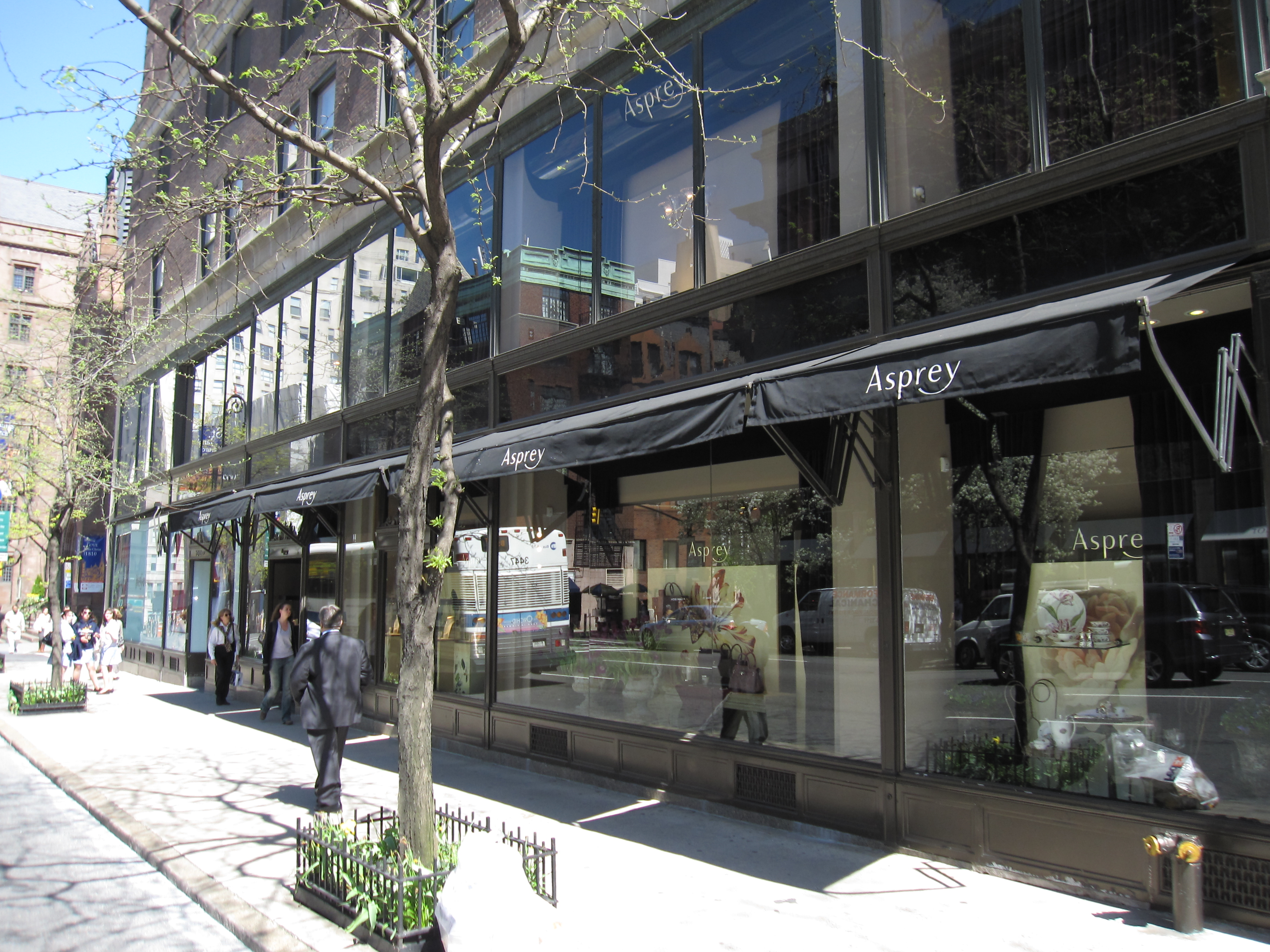 Asprey on 853 Madison Avenue in New York.